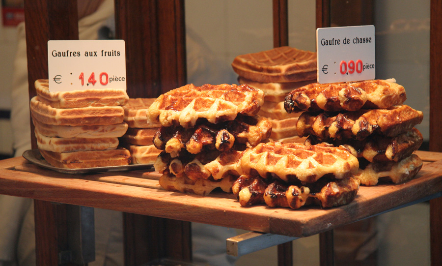 In the foreground : Liège style waffle In the background : Fruits waffle Liège style waffle (Liège Waffle Gaufre de Liège Luikse wafel Lütticher Waffel) Author : Jacques Renier Date taken : 13 DEC 2005 Place : city of Liège, Belgium Personal picture, I set it "public domain".